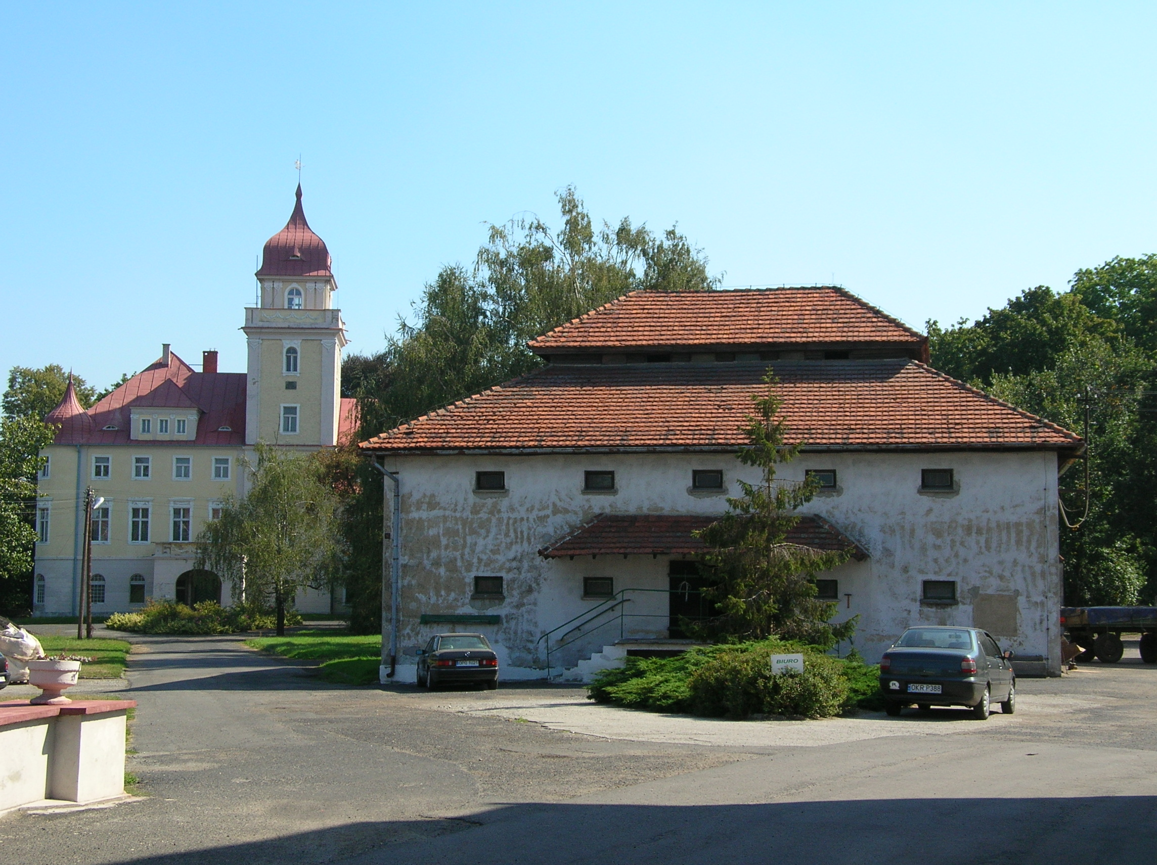 Palace at Dąbrówka Górna